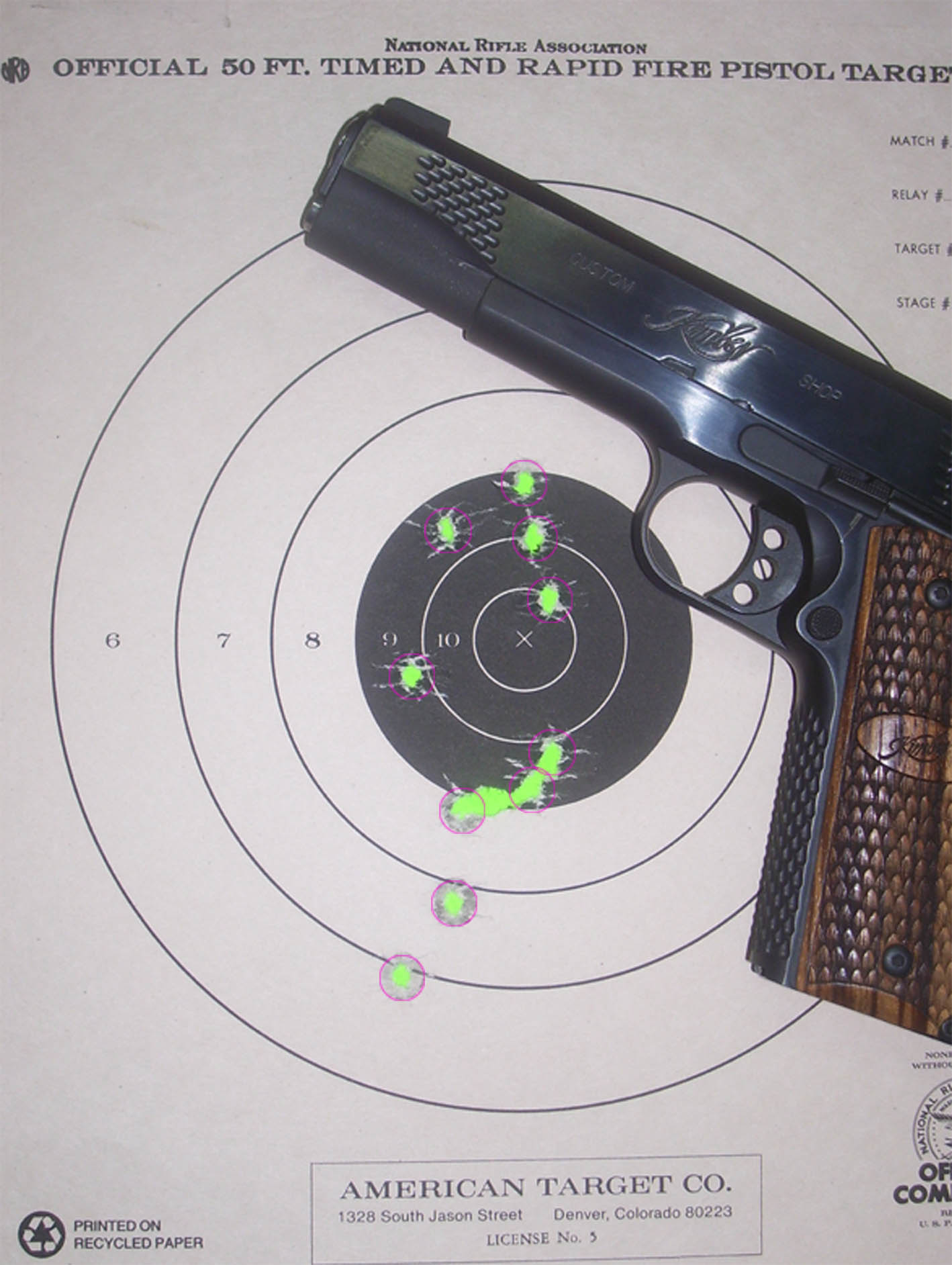 Kimber Raptor .45Acp with NRA B-3 target. Picture was shoot against green background and holes circled for scoring aid. Score is 91-1x.